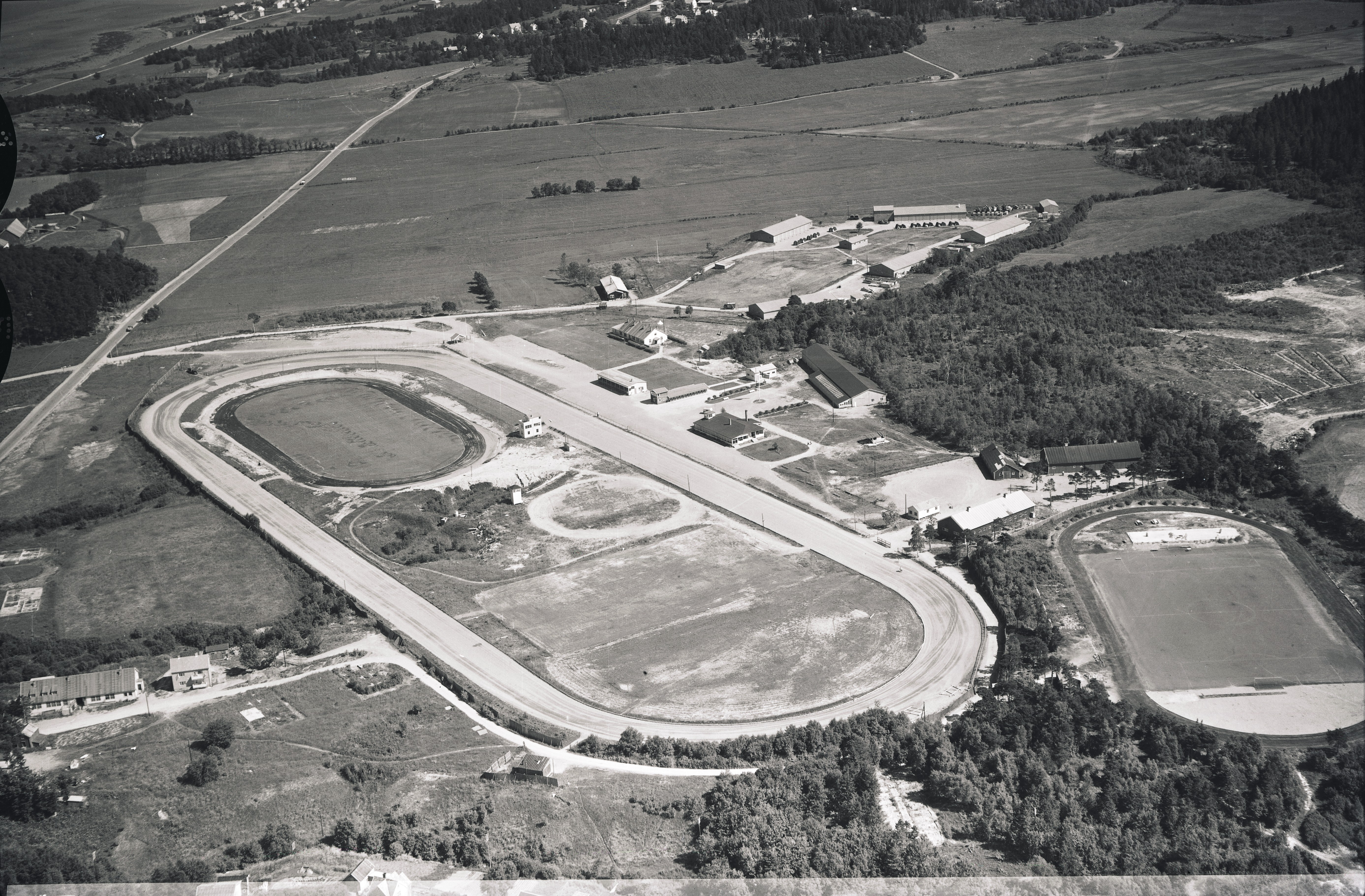 The trotting course Trøndelag travbane in Trondheim, Norway